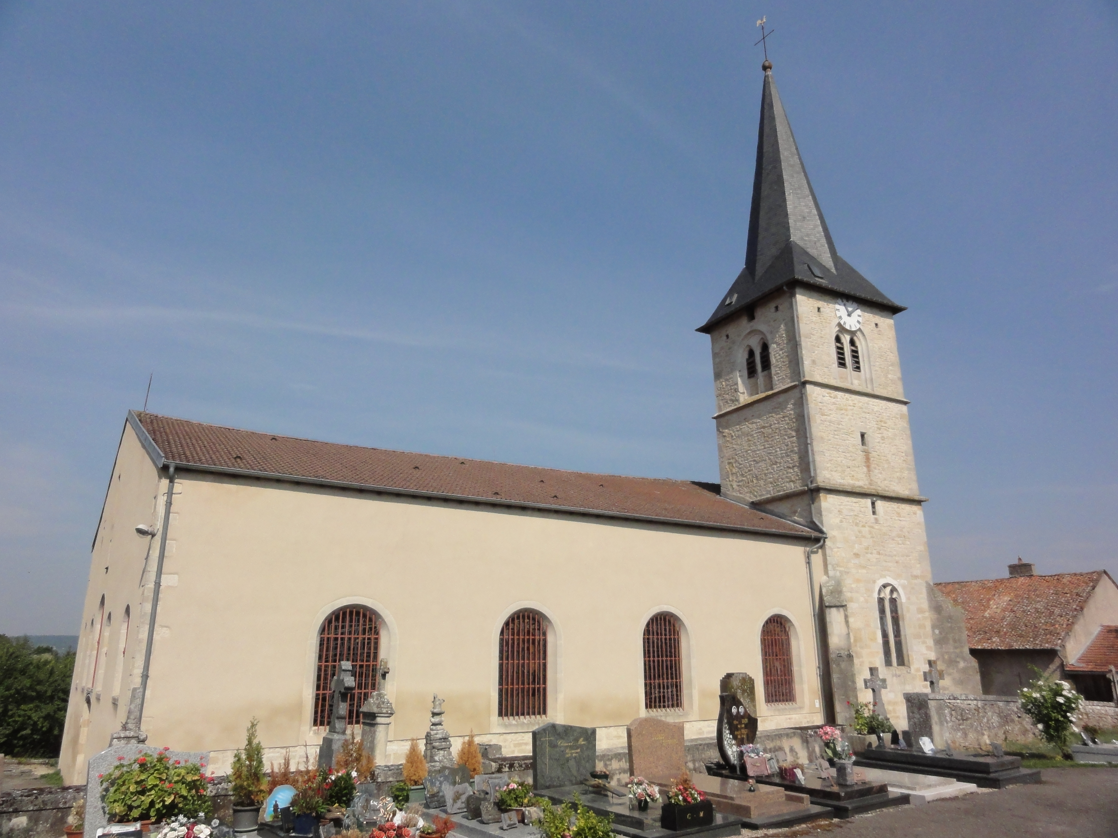 Lagney (Meurthe-et-M.) église